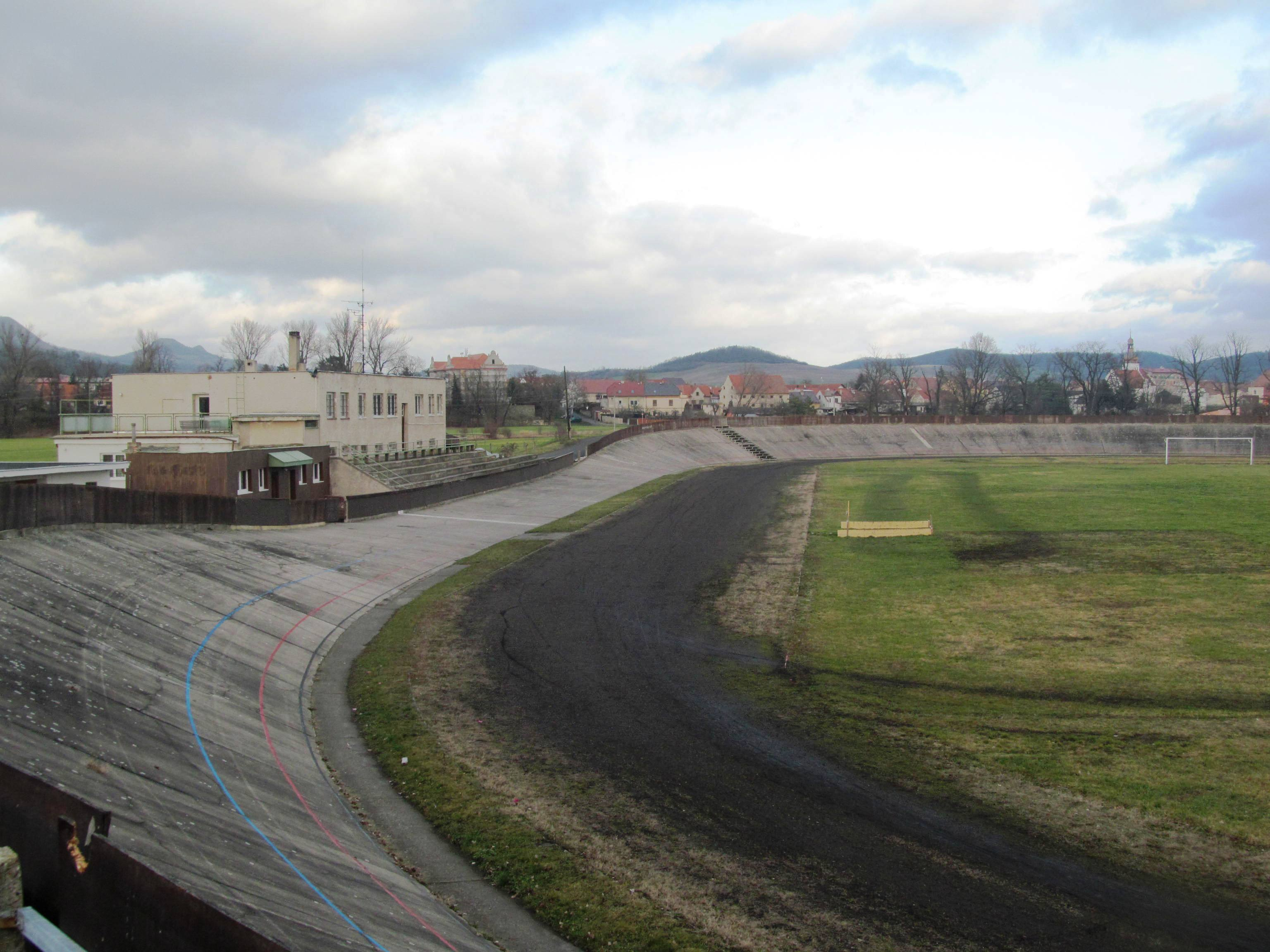 The Velodrome in Louny